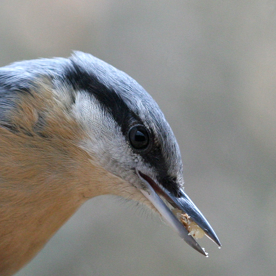 Eurasian Nuthatch Sitta europaea in Bensheim (Germany)